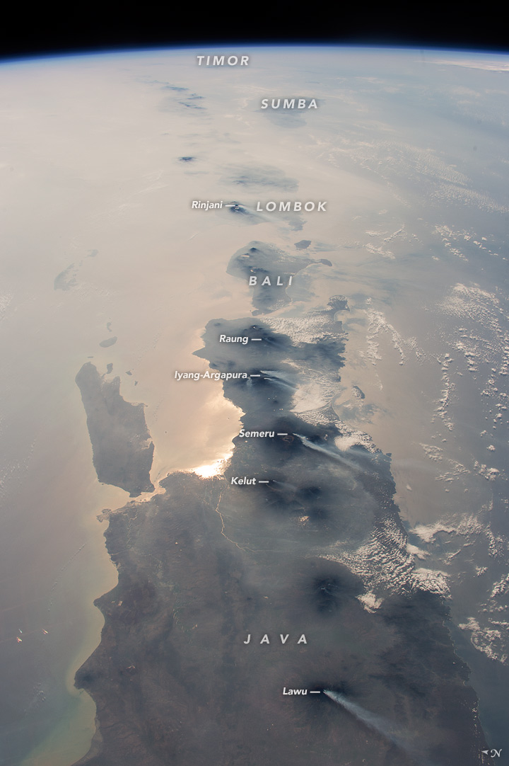 As an equatorial country, Indonesia is often obscured by cloud cover. An astronaut aboard the International Space Station recently seized the opportunity of a relatively storm-free day to photograph nearly half the length of Indonesia’s main island chain. Using a short lens and looking to the horizon for a panoramic effect, the astronaut captured this vast view that includes both clear skies and a murky, region-wide smoke pall. The smoke comes from fires caused by lightning strikes and by forest clearing by humans in Indonesia and northern Australia. In this photograph looking from west to east, Java is in the foreground, Bali and Lombok are near the center, and smaller islands trail off toward the horizon. More distant islands such as Sumba and Timor are almost invisible; each is more than 1600 kilometers (1,000 miles) distant from the spacecraft. The brightest reflection of the Sun off the sea surface silhouettes Surabaya (population 2.8 million), Indonesia’s second-largest city. Against this background of regional smoke, a line of volcanoes appears in sharp detail. Volcanoes are the backbone of the islands, which have been formed by the collision of the Australian tectonic plate (right) with the Asian plate (left). Note that the name of each volcano is labeled in italics. White plumes show that at least six volcanoes appeared to be emitting steam and smoke during this ISS orbit, though some of the plumes could also be wildfire. Even though the plumes are short (80 kilometers; 50 miles), they are prominent because the volcanoes stand above the smoky air layer near the surface. The plumes are also strikingly parallel, aligned with winds from the northeast. Every day, astronauts are sent memos alerting them to dynamic events—such as volcanic eruptions and fires—so that they might observe them from space.